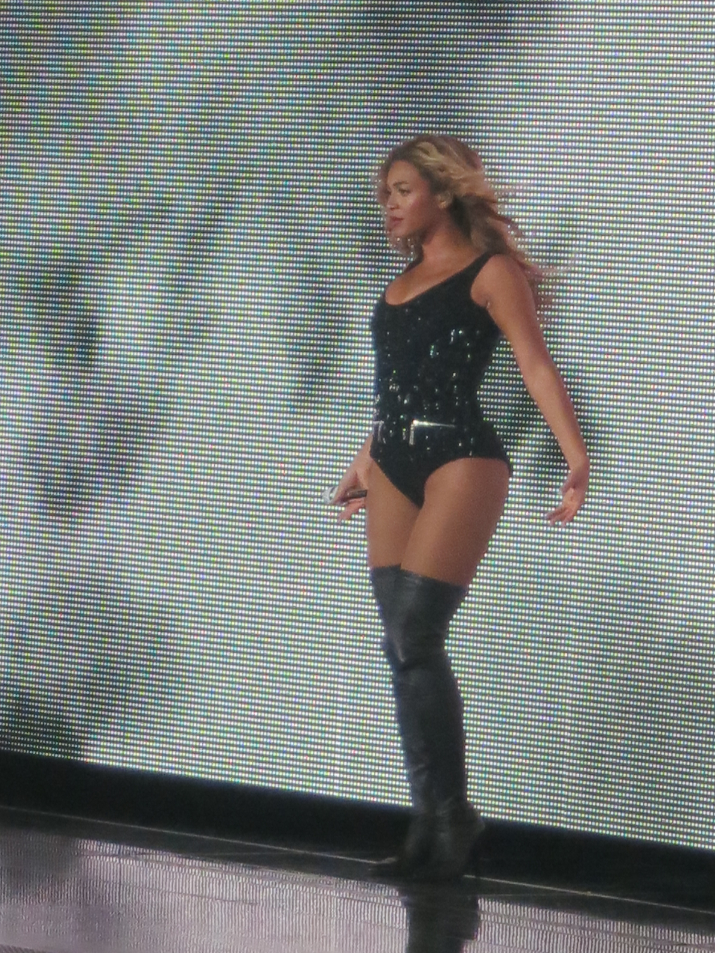 Beyoncé Knowles performing during The Mrs. Carter Show World Tour at Barclays Center.